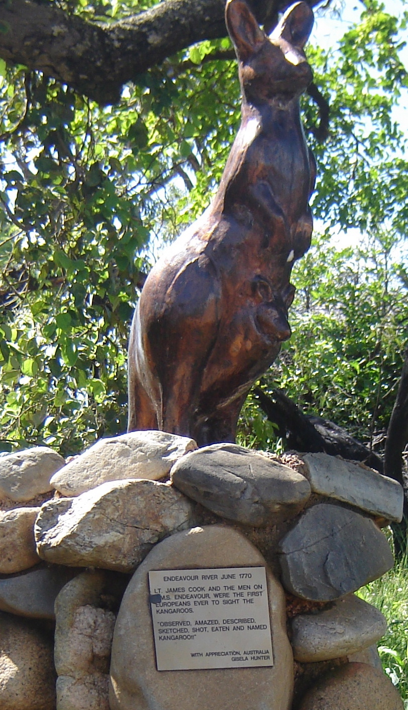 Kangaroo statue on Grassy Hill at Cooktown, a monument to the first time that European settlers (Captain James Cook) saw the kangaroo when landing on the shores of Cooktown in 1770. Gisela Hunter ; Photo taken by Frances76.